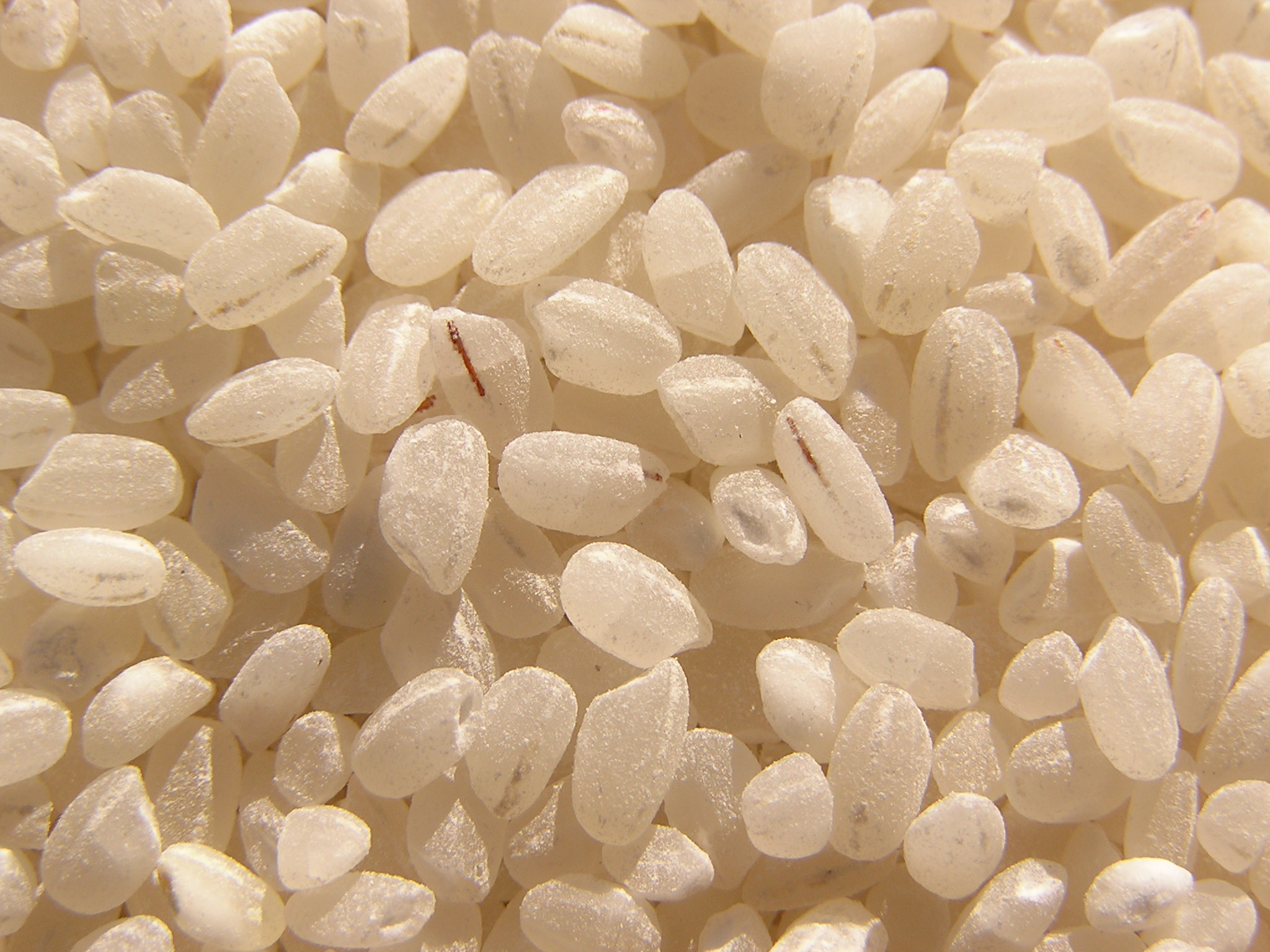 Rice.